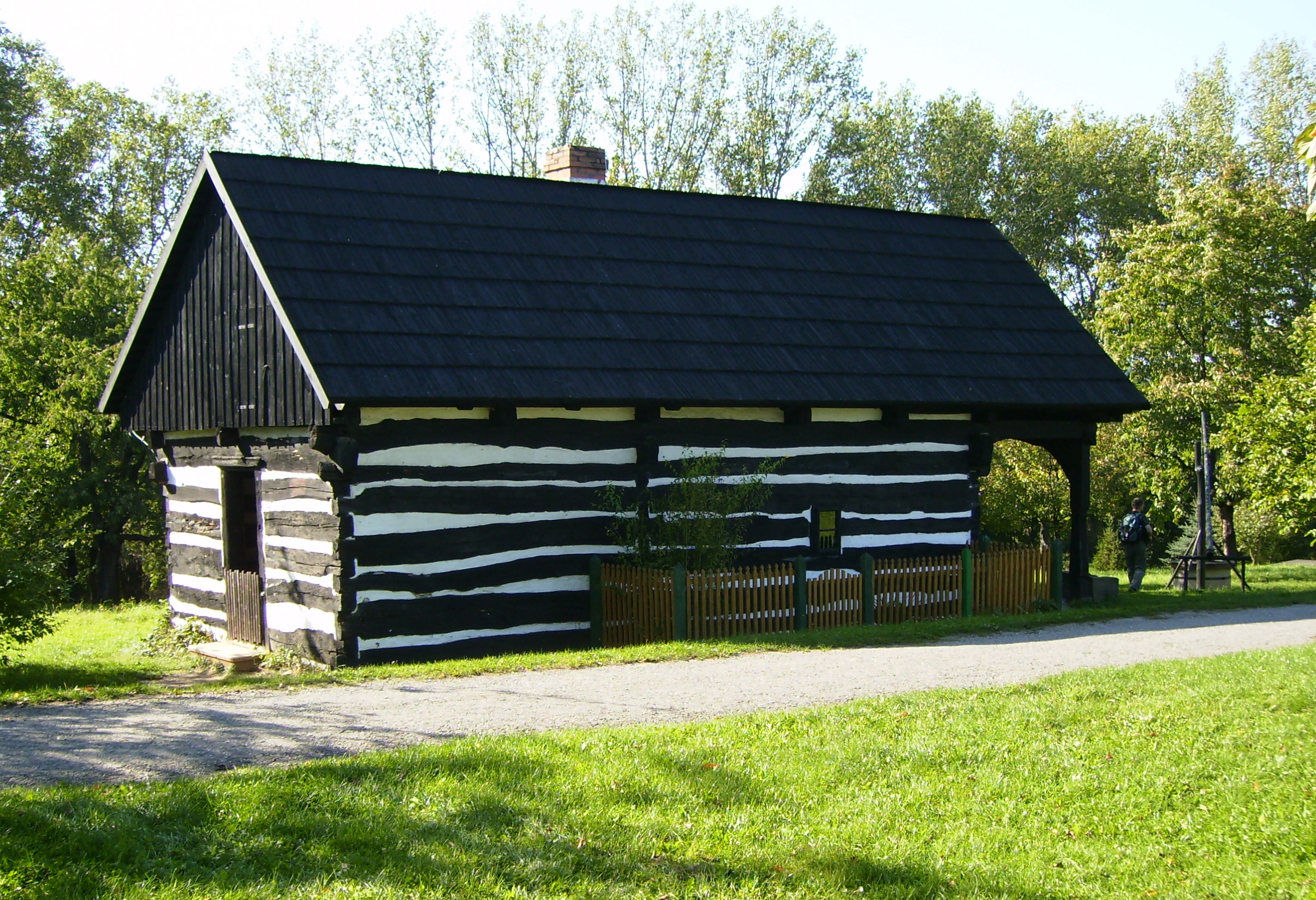 Open-air museum in Kouřim, Czech Republic.